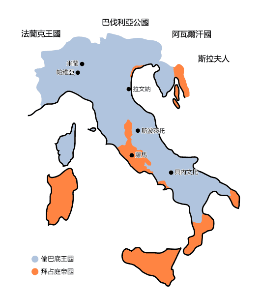 Map of Lombard Kingdom after Aistulf's conquests (751 AD) - Italian version - according to Paulus the Deacon's Historia Langobardorum, Lidia Capo ed., Mondadori, Milan 1992.